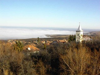 Gheorgheni village in Cluj county, Romania